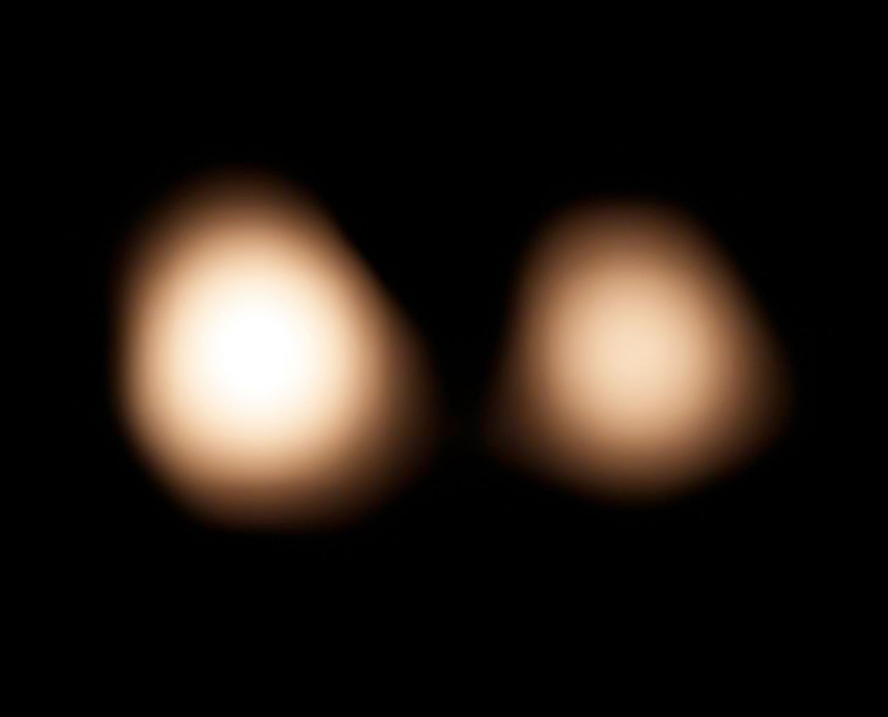 Astronomers using the Atacama Large Millimeter/submillimeter Array (ALMA) are making high-precision measurements of Pluto's location and orbit around the Sun to help NASA’s New Horizons spacecraft accurately home in on its target when it nears Pluto and its five known moons in July 2015. This picture shows the cold surface of Pluto and its largest moon Charon as seen with ALMA on 15 July 2014.